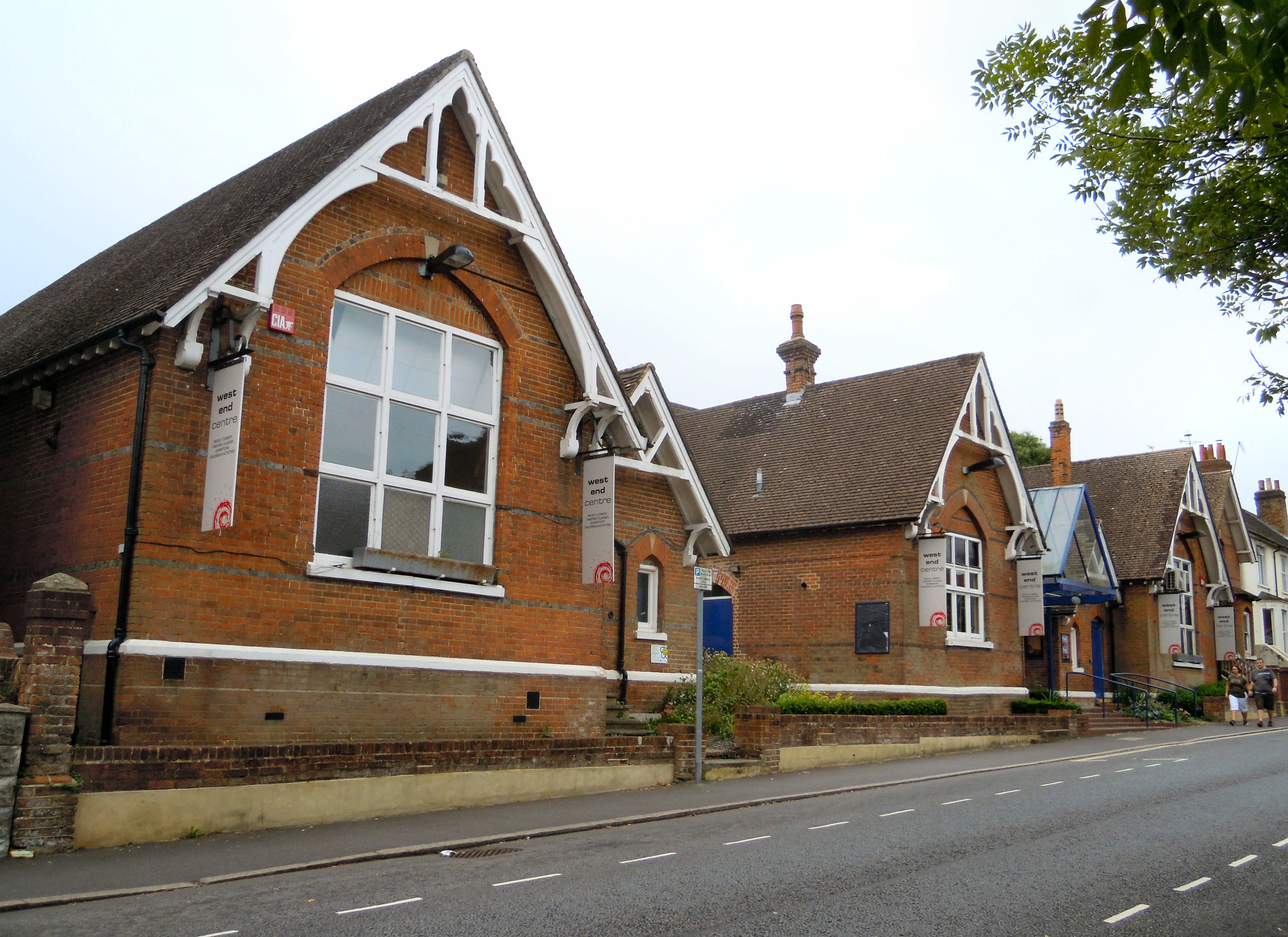 Exterior of the West End Centre on Queens Road in Aldershot